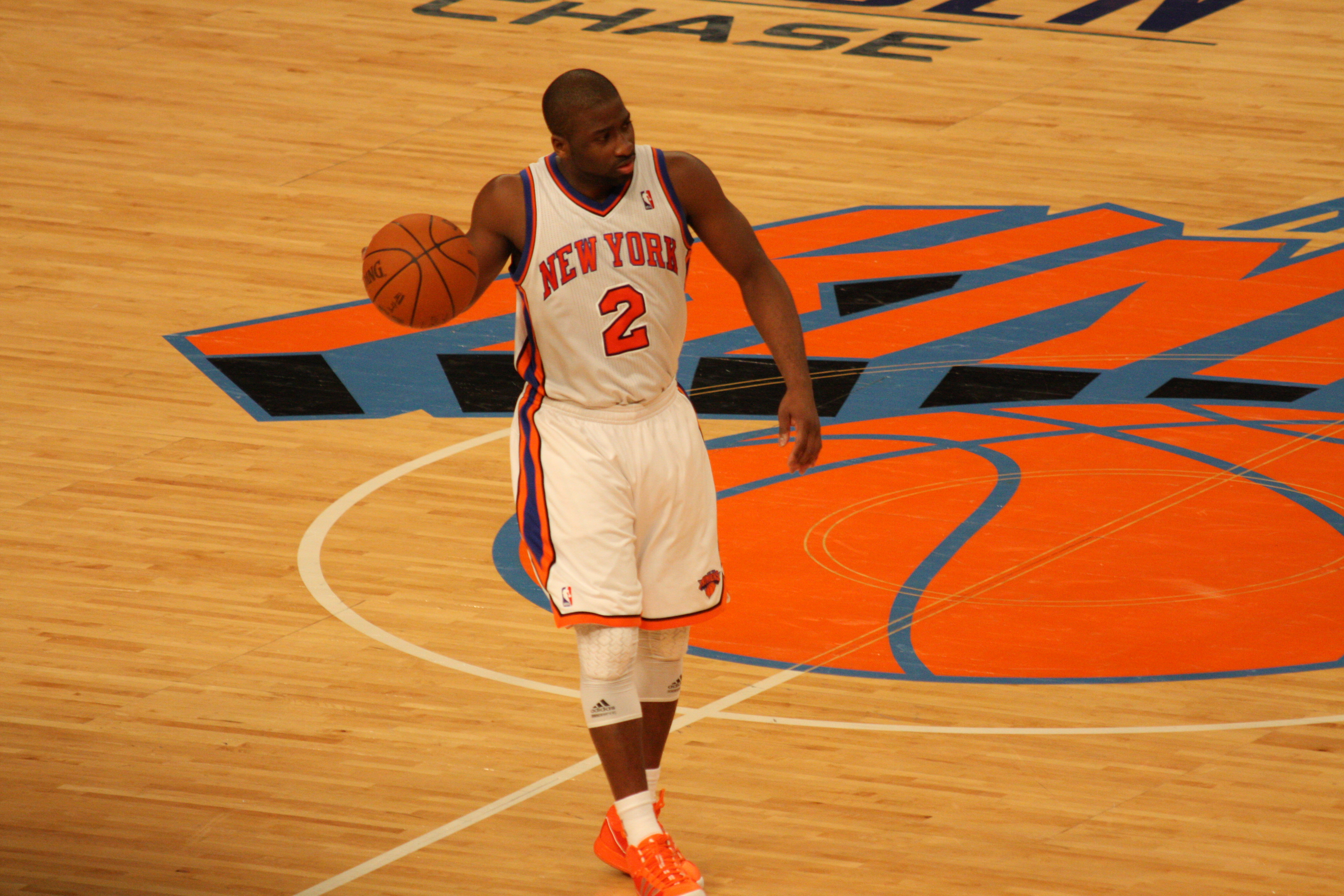 Raymond Felton